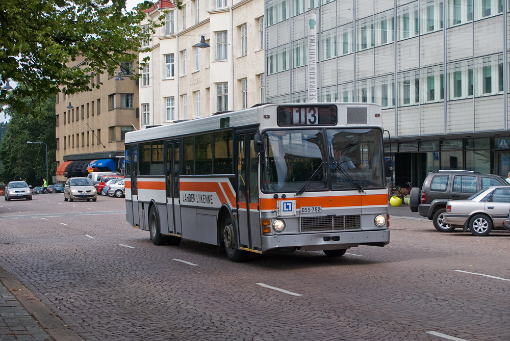 Wiima K202 bus with Volvo B10M chassis in Lahti, Finland.